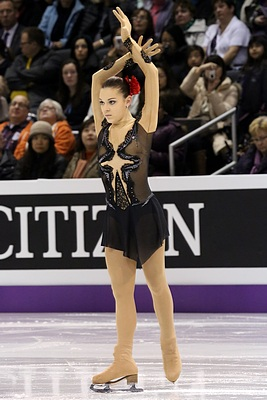 Adelina Sotniкova at the World Championships 2013